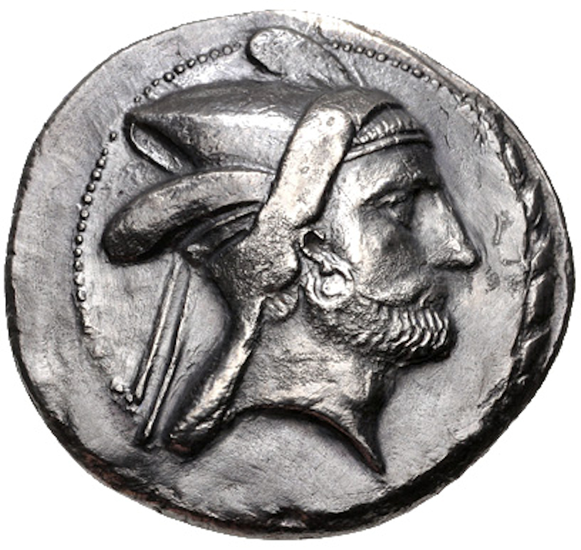 KINGS of PERSIS. Bagadates Early 3rd century BC (obverse)